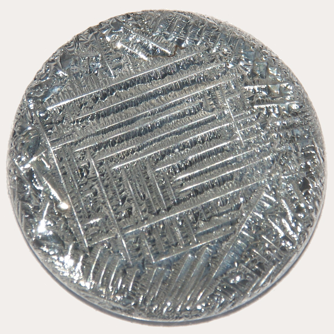 Metallic tellurium, diameter 3.5 cm